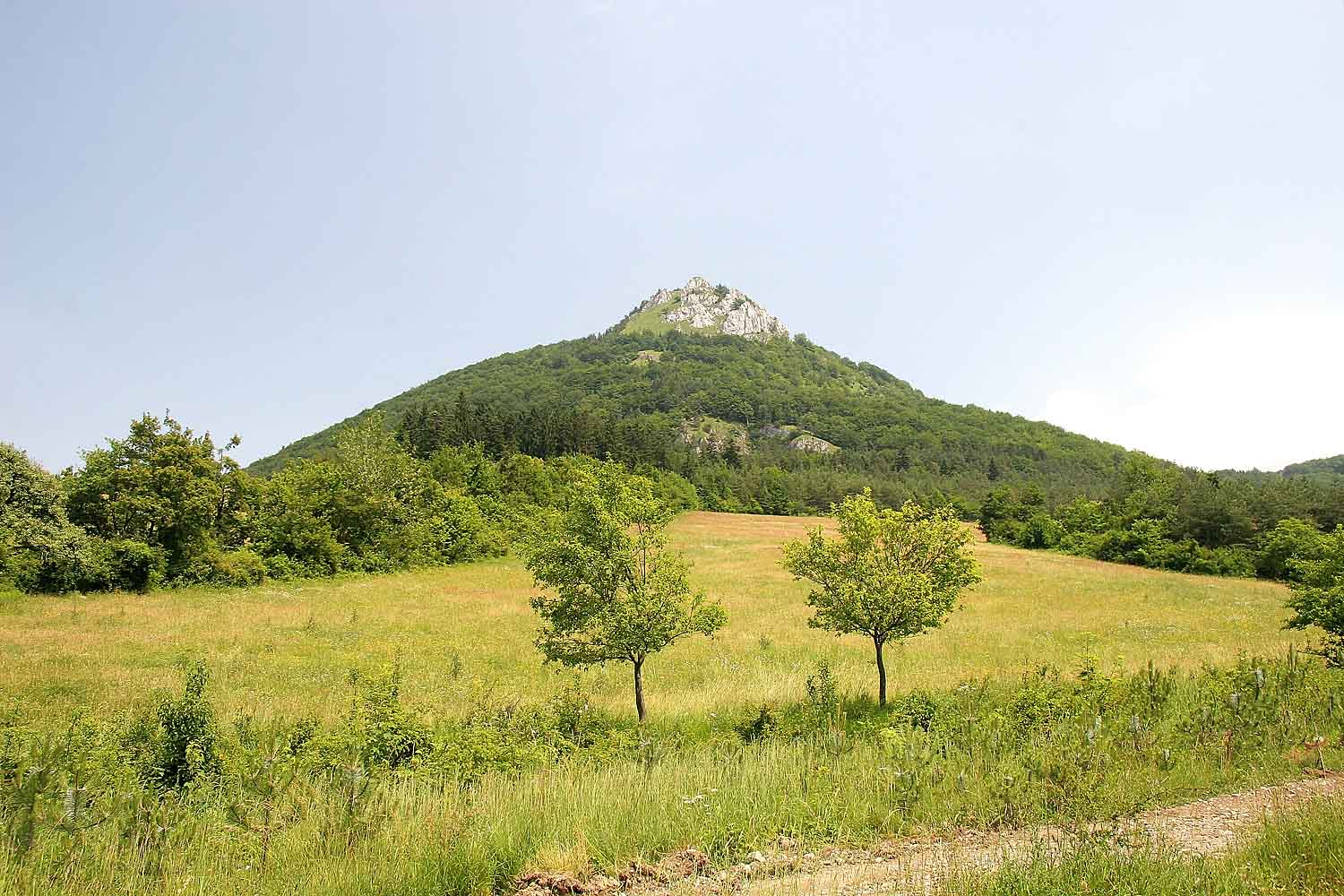 Vápeč Hill (955 m), Strážovské vrchy Mountains, District Ilava, Slovakia. Highest part of the hill is composed of triassic Wetterstein Limestone of Nedzov/Vererlín Nappe - Nappe outlier of Hronicum.